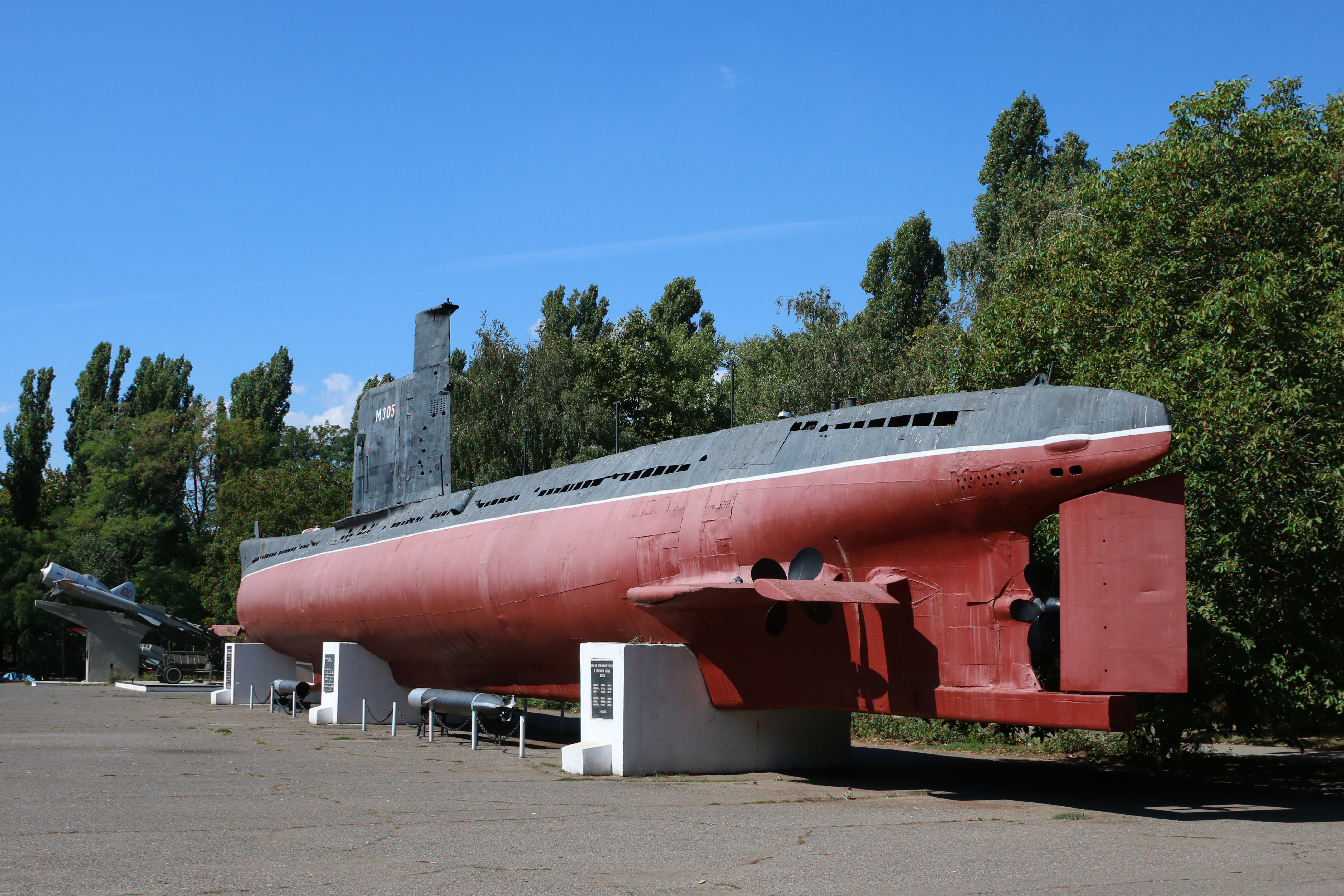 Soviet submarine M-296 of Quebec-class as a memorial in Odessa under name M-305.